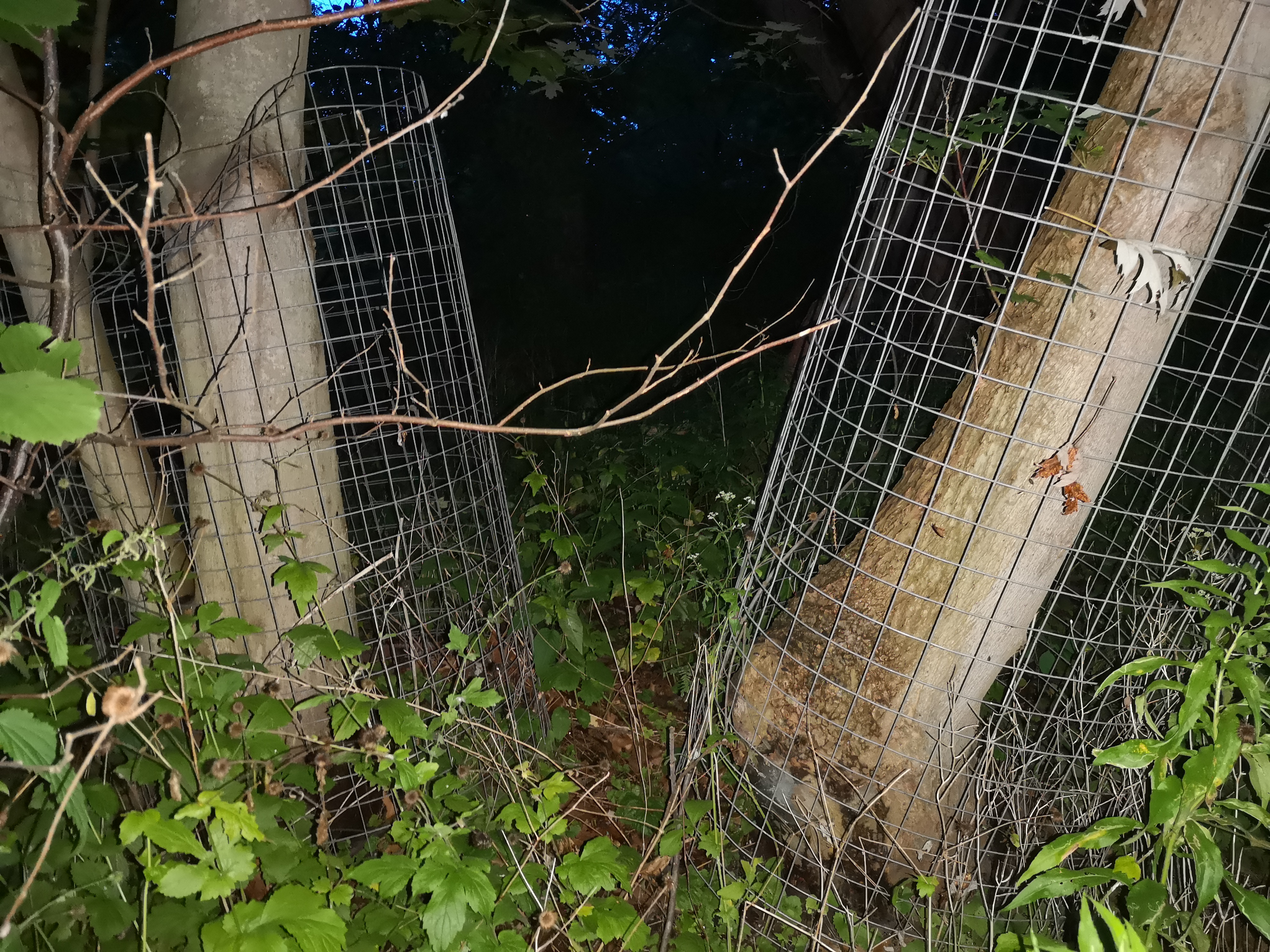 Wire mesh fences protects the trunk of the tree from possible beaver damage at High Park, Toronto